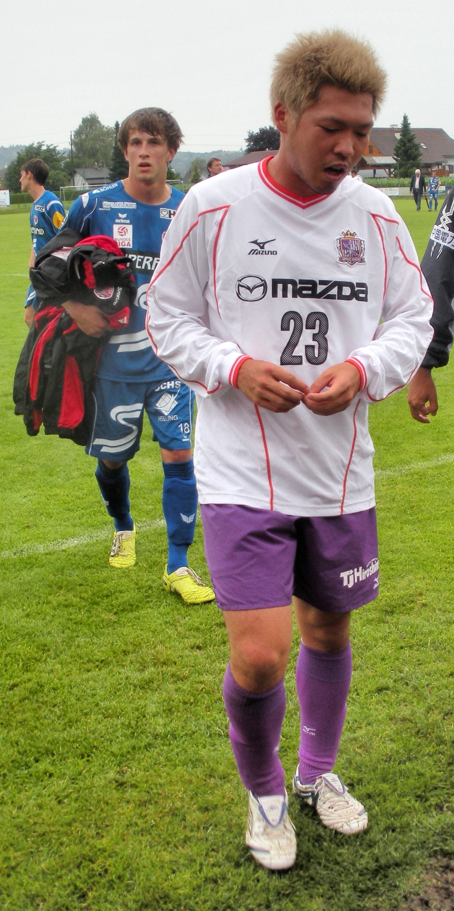 Hironori Ishikawa as player of Sanfrecce Hiroshima (Japan) shortly after an international pre-season friendly on 20 June 2010 against Kapfenberger SV from Austria at the football ground of LAC-Linden in Leibnitz (Styria / Austria)